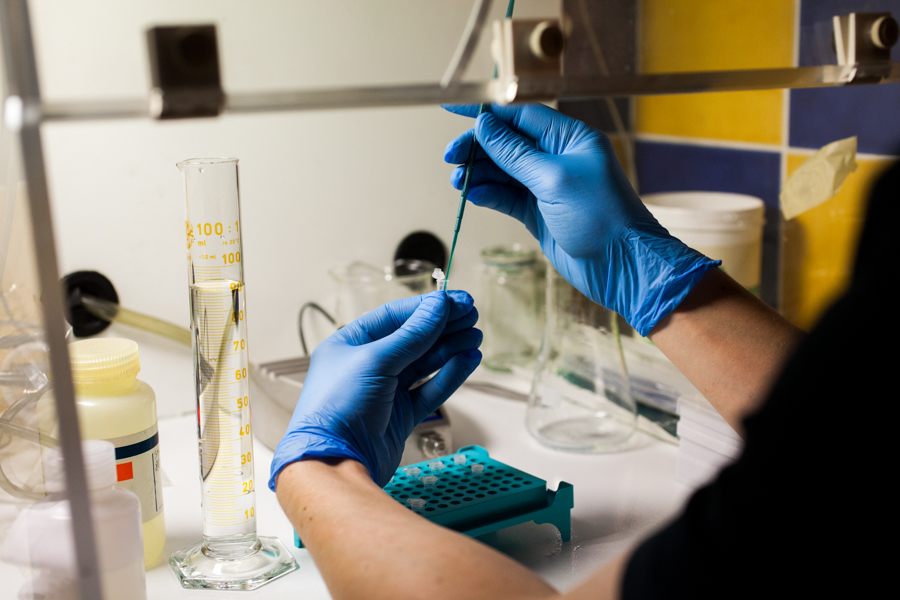 Preparation of microbiological samples in a laminar chamber. Institute of Systematics and Evolution of Animals Polish Academy of Sciences in Cracov